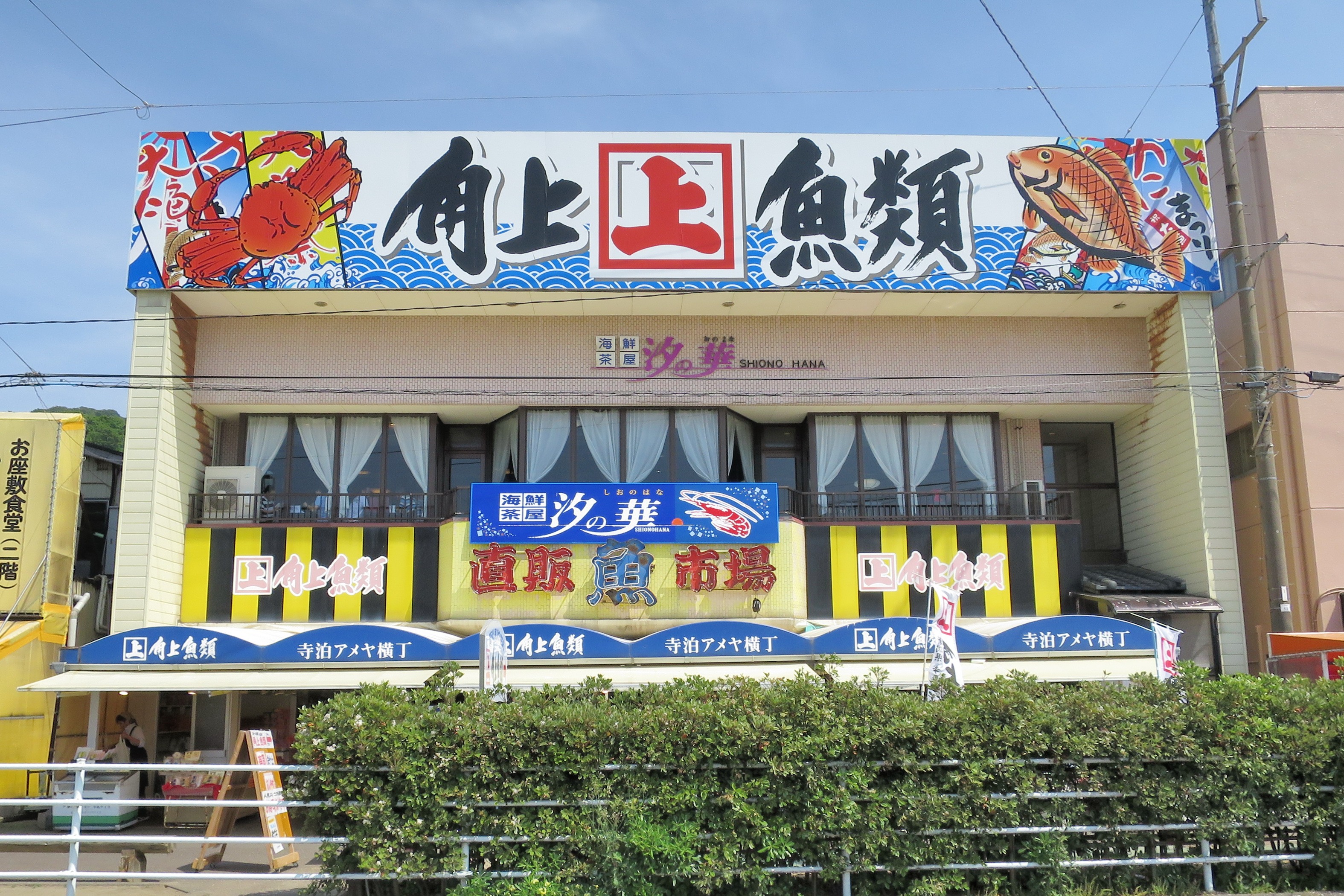 Photograph of Teradomari Kakujoe Gyorui exterior. address 9772-27 Teradomarishimoaramachi, Nagaoka City, Niigata Prefecture, Japan photo date and time 13:55 May 29, 2015